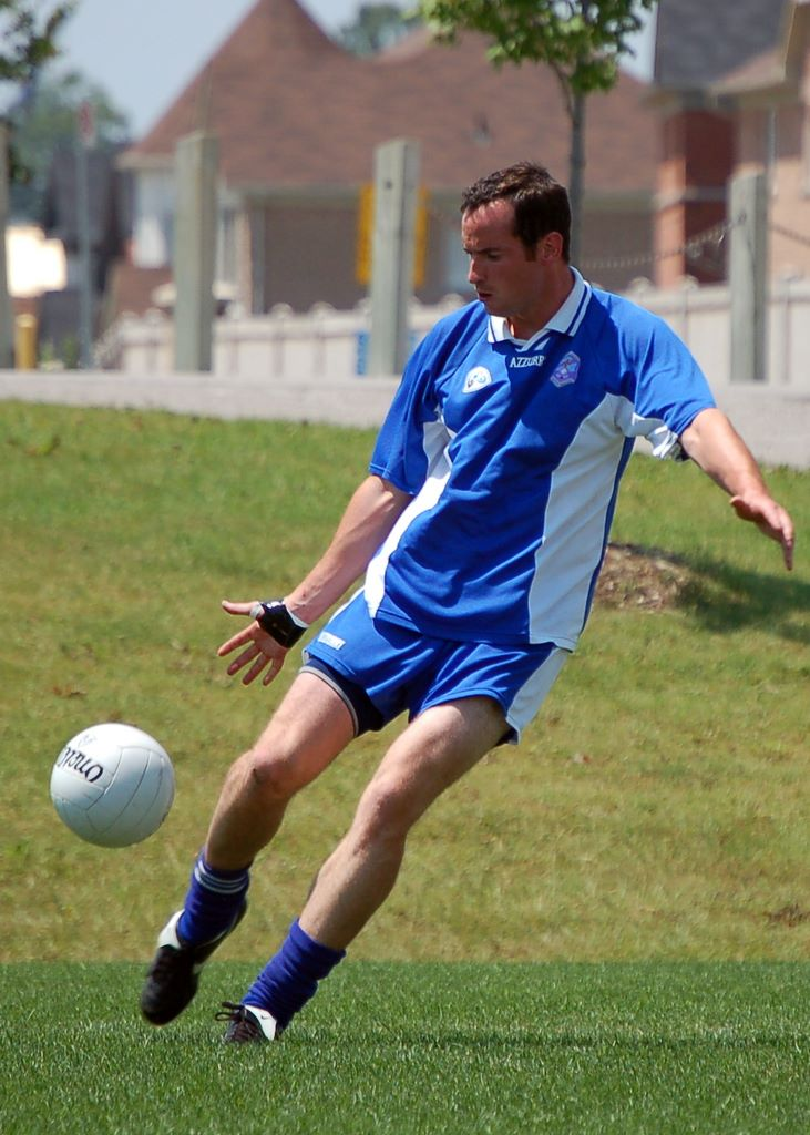 A player from the Durham Robert Emmets Gaelic football club prepares to shoot for goal. Taken during the Durham Robert Emmets Invitational Tournament, in Ajax, Ontario, Canada.